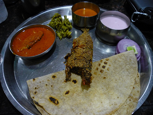 jevan @ Tarkarkli